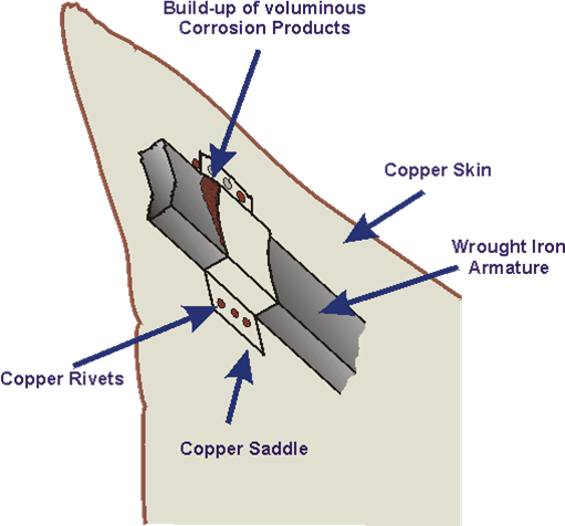 own diagram made in 2003